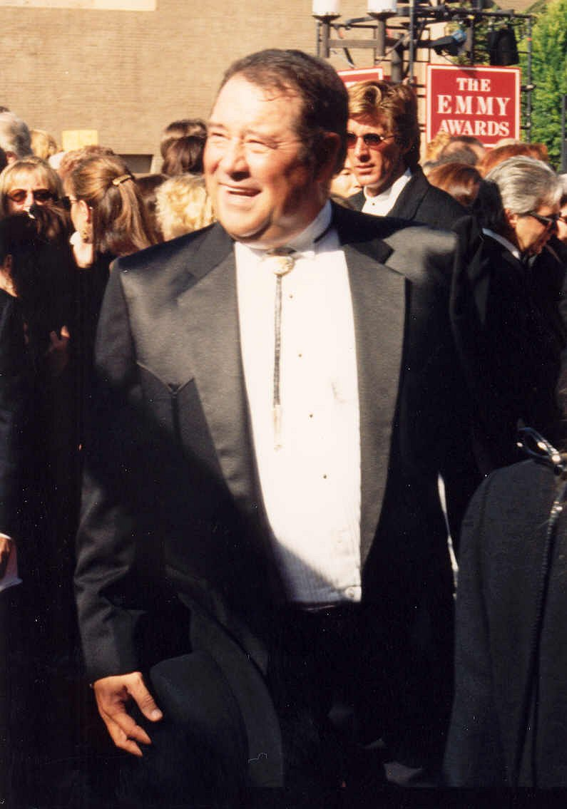 Barry Corbin on the red carpet at the Emmys 9/11/94